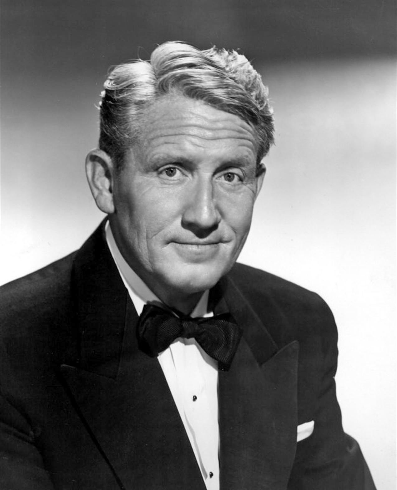 Publicity portrait of Spencer Tracy for State of the Union (1948). Such images were taken by a studio photographer, and then disseminated to the media and the public to promote the film (see Film still). Public domain explanation Publicity images were usually not copyrighted, as stated by film industry experts: "Publicity photos (star headshots) have traditionally not been copyrighted. Since they are disseminated to the public, they are generally considered public domain, and therefore clearance by the studio that produced them is not necessary." — Eve Light Honthaner, The Complete Film Production Handbook, (Focal Press, 2001 p. 211.) "According to the old copyright act, such production stills were not automatically copyrighted as part of the film and required separate copyrights as photographic stills ... Most studios have never bothered to copyright these stills because they were happy to see them pass into the public domain, to be used by as many people in as many publications as possible." — Gerald Mast, Film Study and the Copyright Law (1989) p. 87 If any copyright was secured for this image, under the terms of the 1909 Copyright Act (which was law until 1978) that copyright would have had to be renewed in the 28th year following registration. Copyright renewal records for artwork in 1976 find no trace of this image: [1] [2].